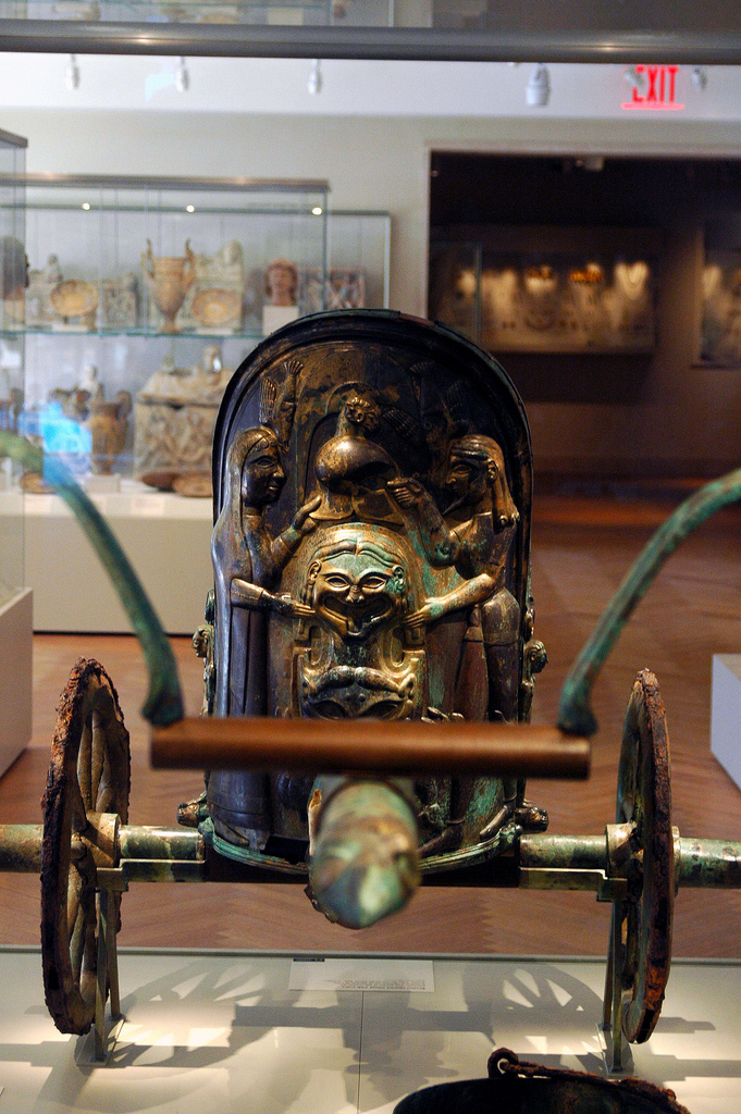 The Monteleone Chariot is an Etruscan chariot dated to ca. 530 BC. It was originally uncovered at Monteleone di Spoleto and is currently part of the collection of the Metropolitan Museum of Art in New York City. Though about 300 ancient chariots are known to still exist, only six are reasonably complete, and the Monteleone chariot is the best-preserved. (This summary was created using Commons SumItUp).